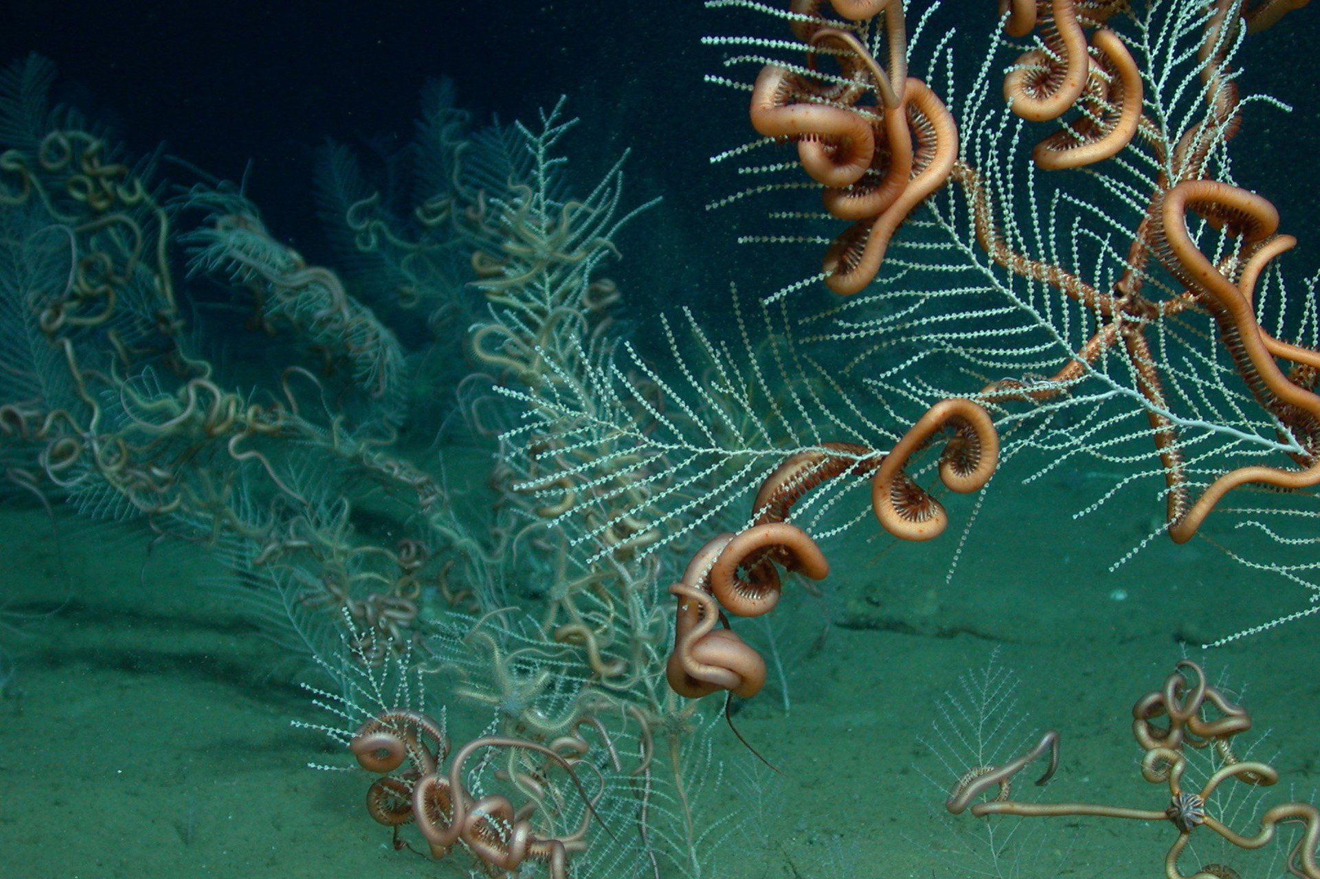 A field of the soft coral Callogorgia sp. with its ophiuroid symbiont. Gulf of Mexico.